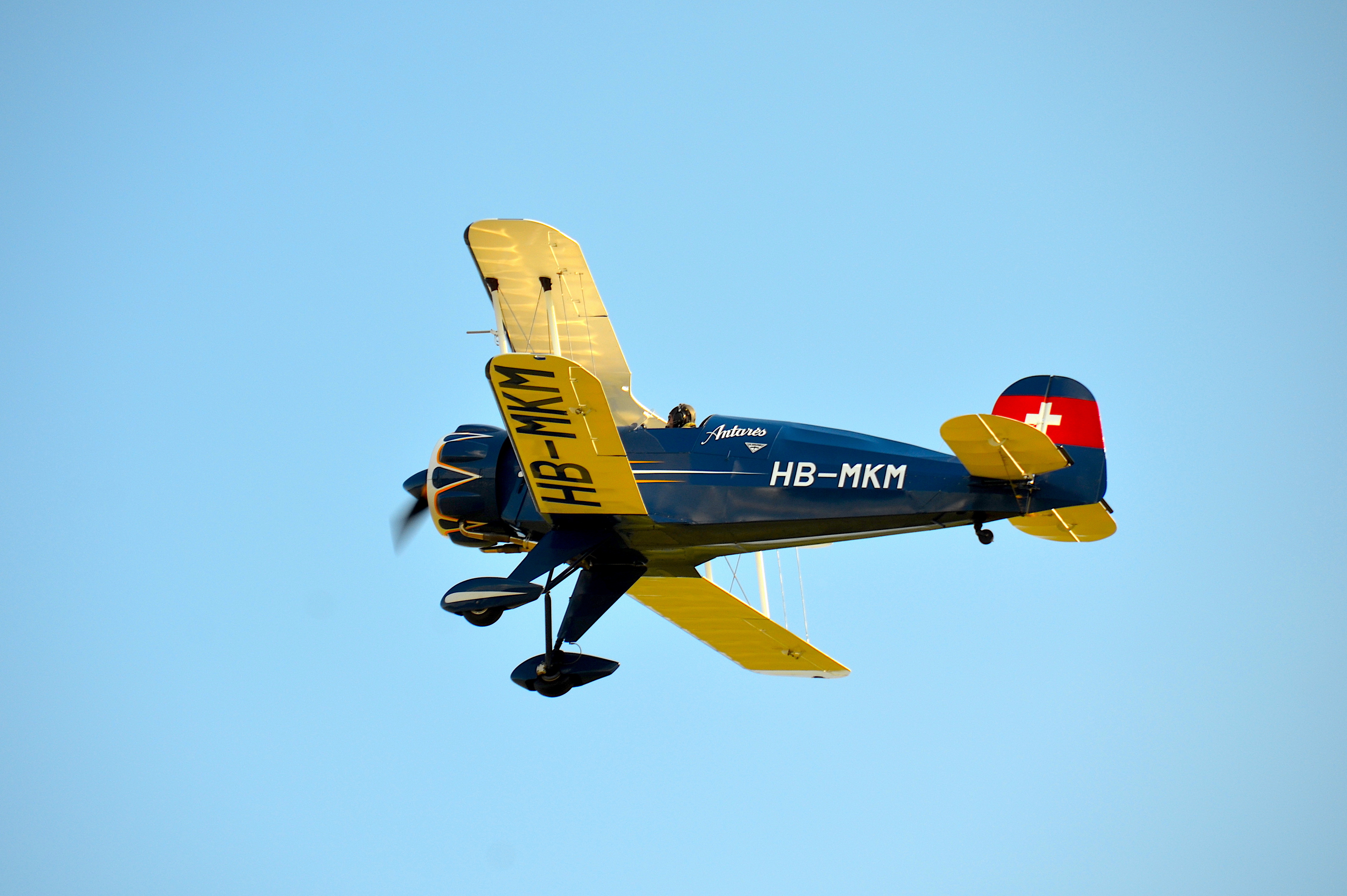 Doflug Bü-133C Jungmeister at airshow at Degerfeld airfield (2016)